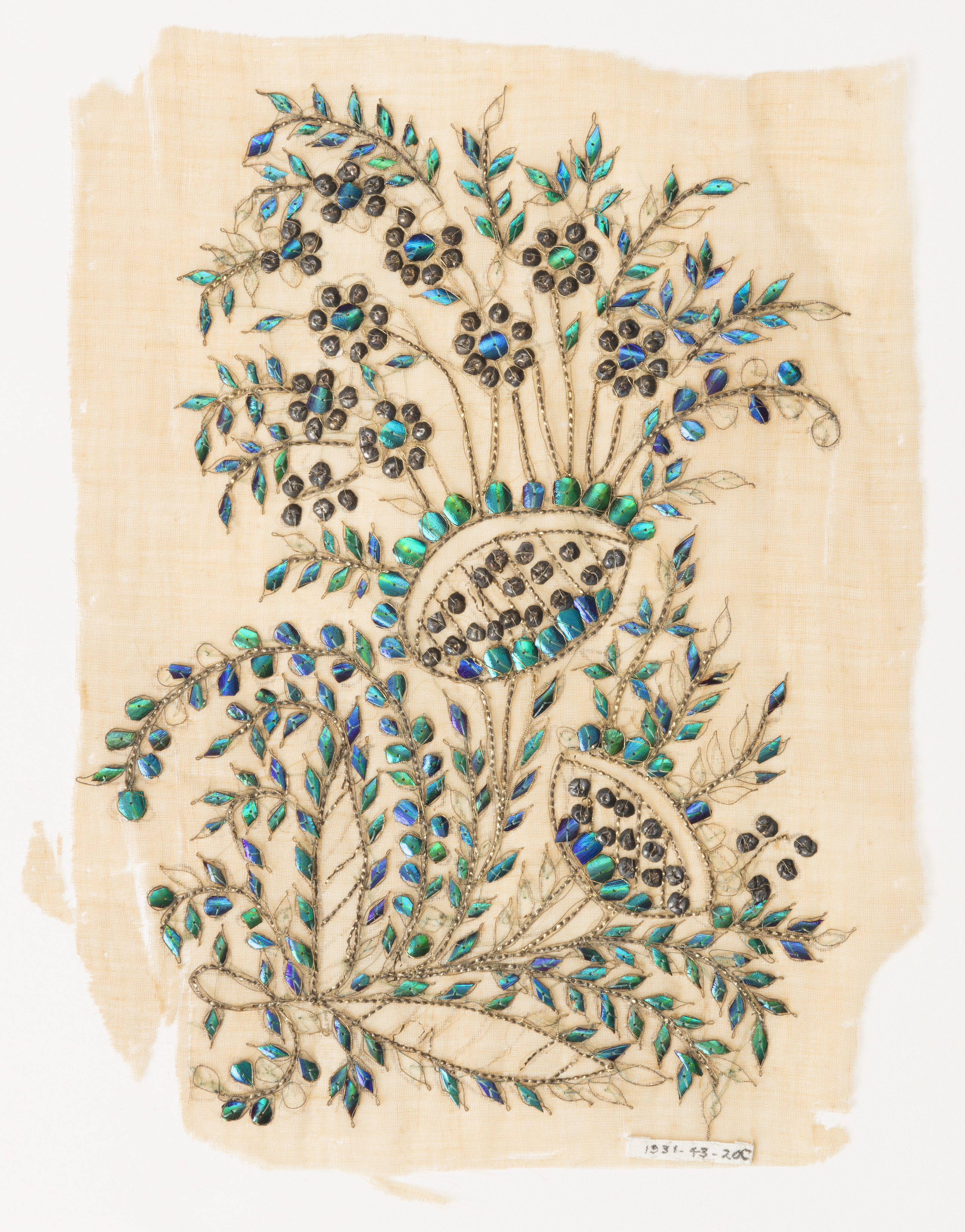 Off-white cotton sheer ground with embroidered design of a stylized floral spray with two large blossoms and numerous small ones curving to the left. The vines are executed in gold foil strips, the small flowers in gilt sequins, and the leaves in beetle elytra.